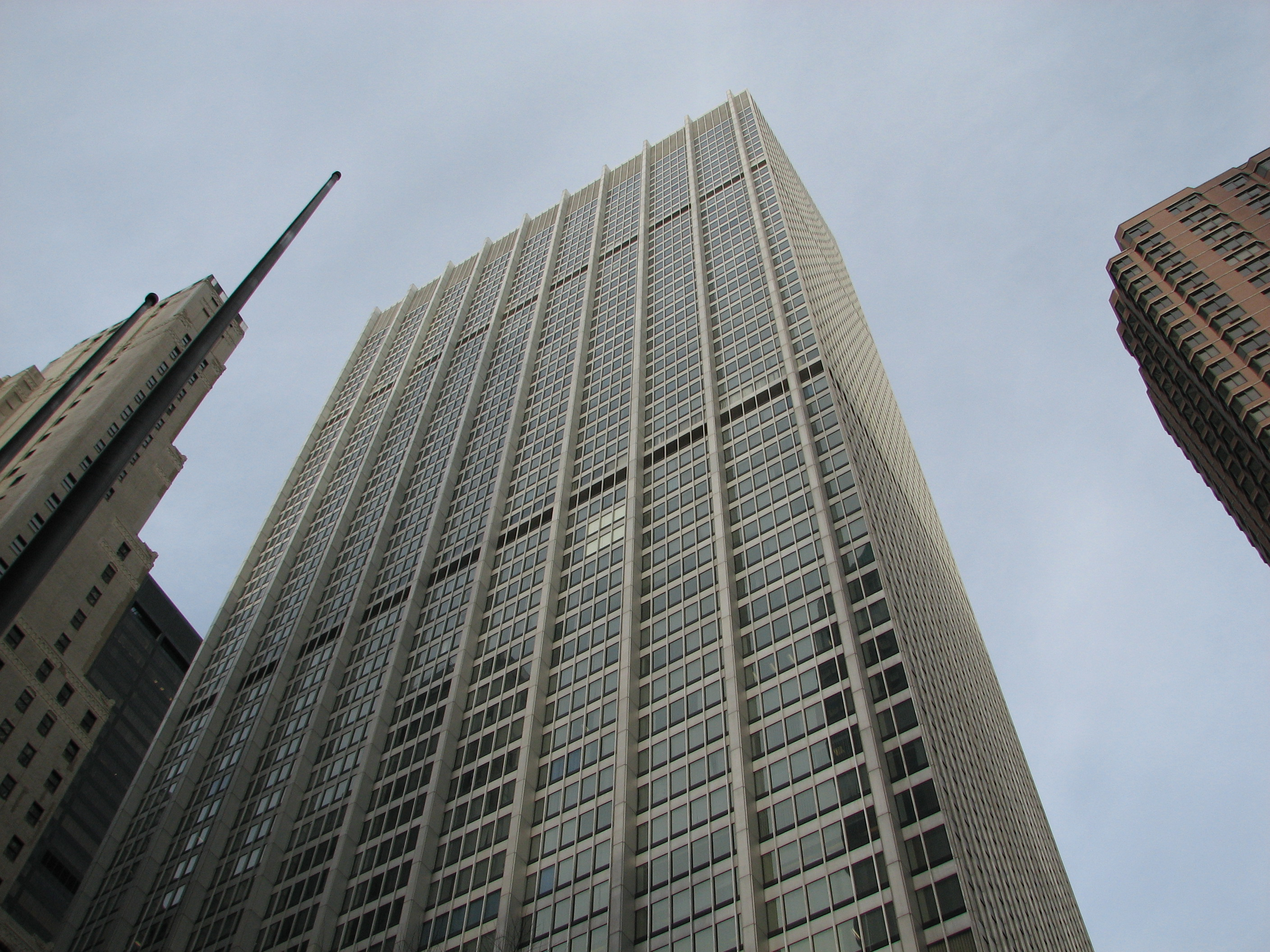 One Chase Manhattan Plaza (Skidmore, Owens & Merrill, 1960) is currently the 10th tallest building in New York City and the 94th tallest in the world. Lies within the newly-established Wall Street Historic District. I say a little more about it on my landmarks blog . National Register Number Wall Street Historic District: 07000063